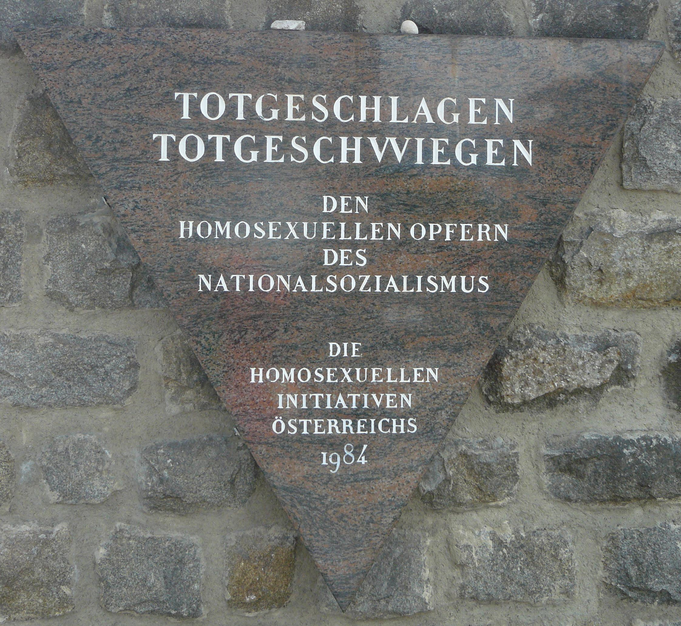 Memorial to Gay Victims of the Holocaust in KZ Mauthausen.